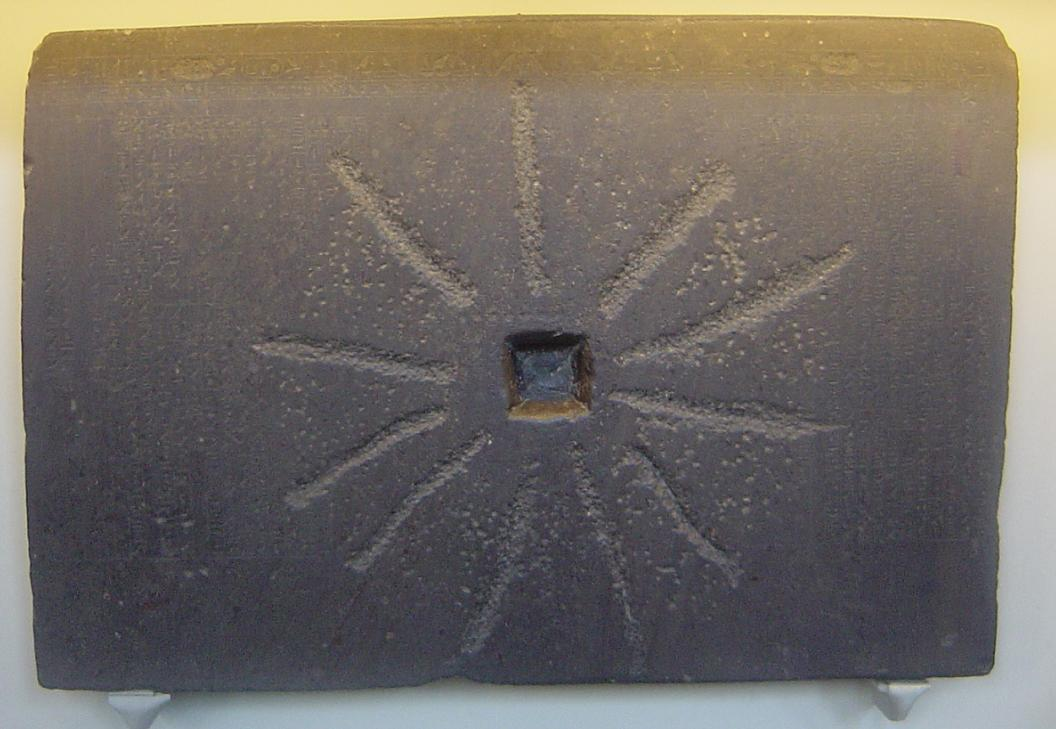 The Shabaka Stone at the British Museum.